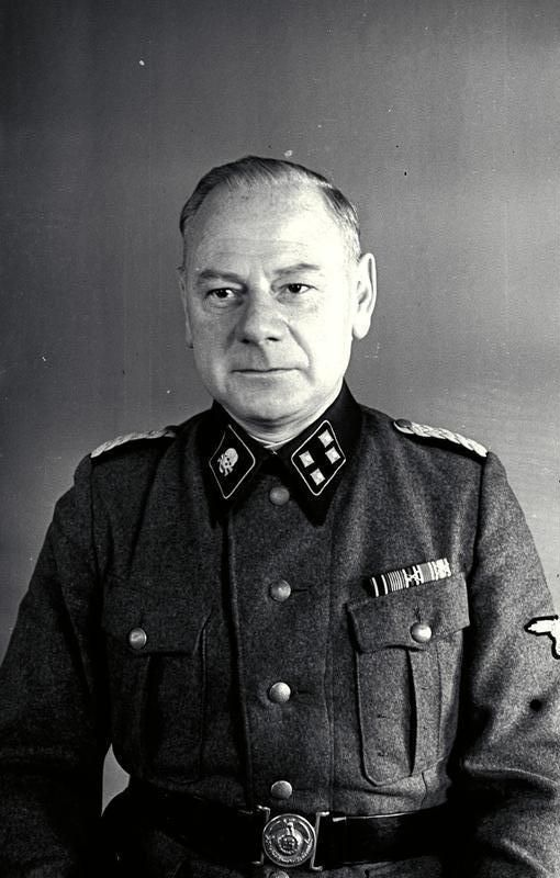 Information added by Wikimedia users. Portrait of Dr. Ewald Krebsbach, doctor of the Mauthausen concentration camp, as SS-Sturmbannführer, c. 1942/1943